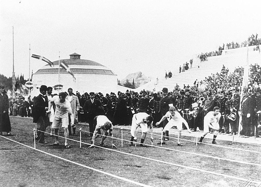 Start of the second series of 100 metres events in 1896 Summer Olympics